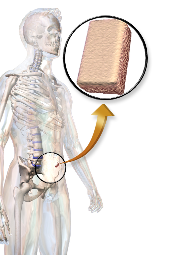 Autograft. See a related animation of this medical topic.